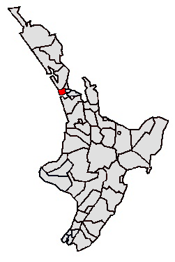 Map of the North Island of New Zealand, Waitakere City Council highlighted